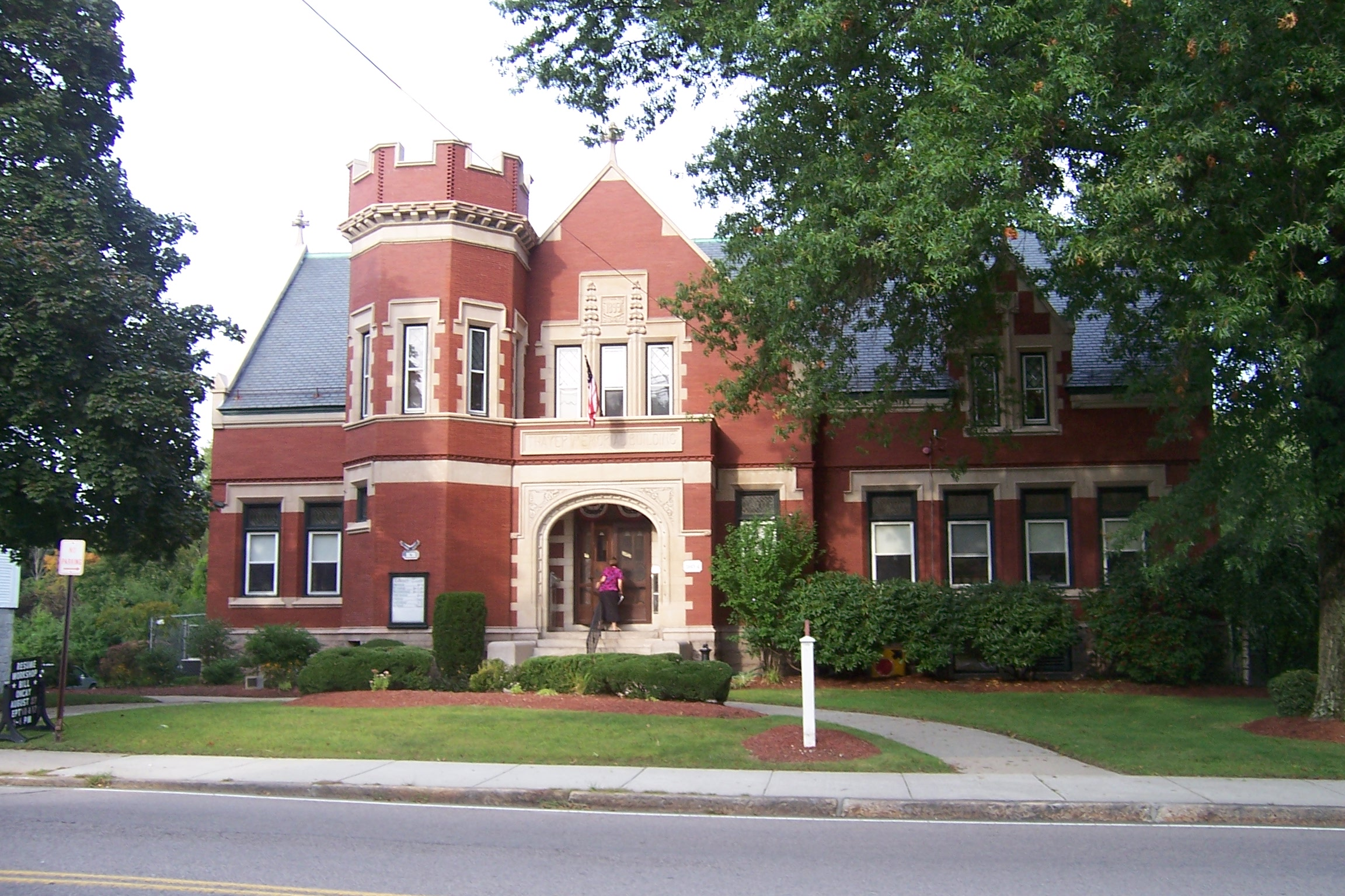 Outside the library